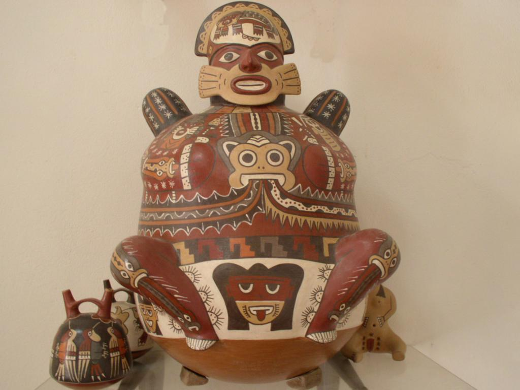 Nazca style pottery, contemporary reproduction, Chauchilla, Peru. See Flickr page linked for more info.